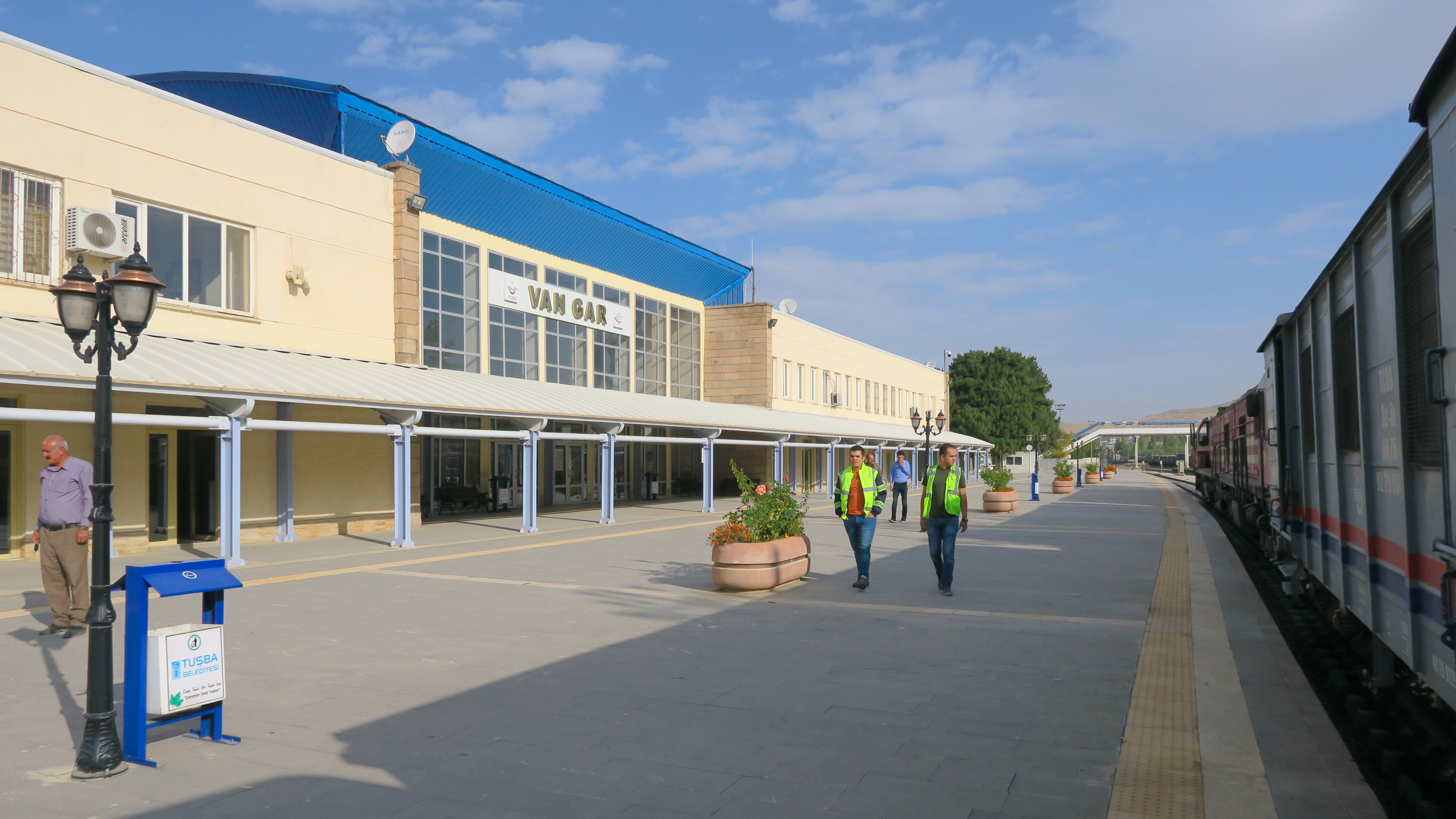 Van railway station in early October 2018, with a recently arrived international train from Tabriz in Iran.